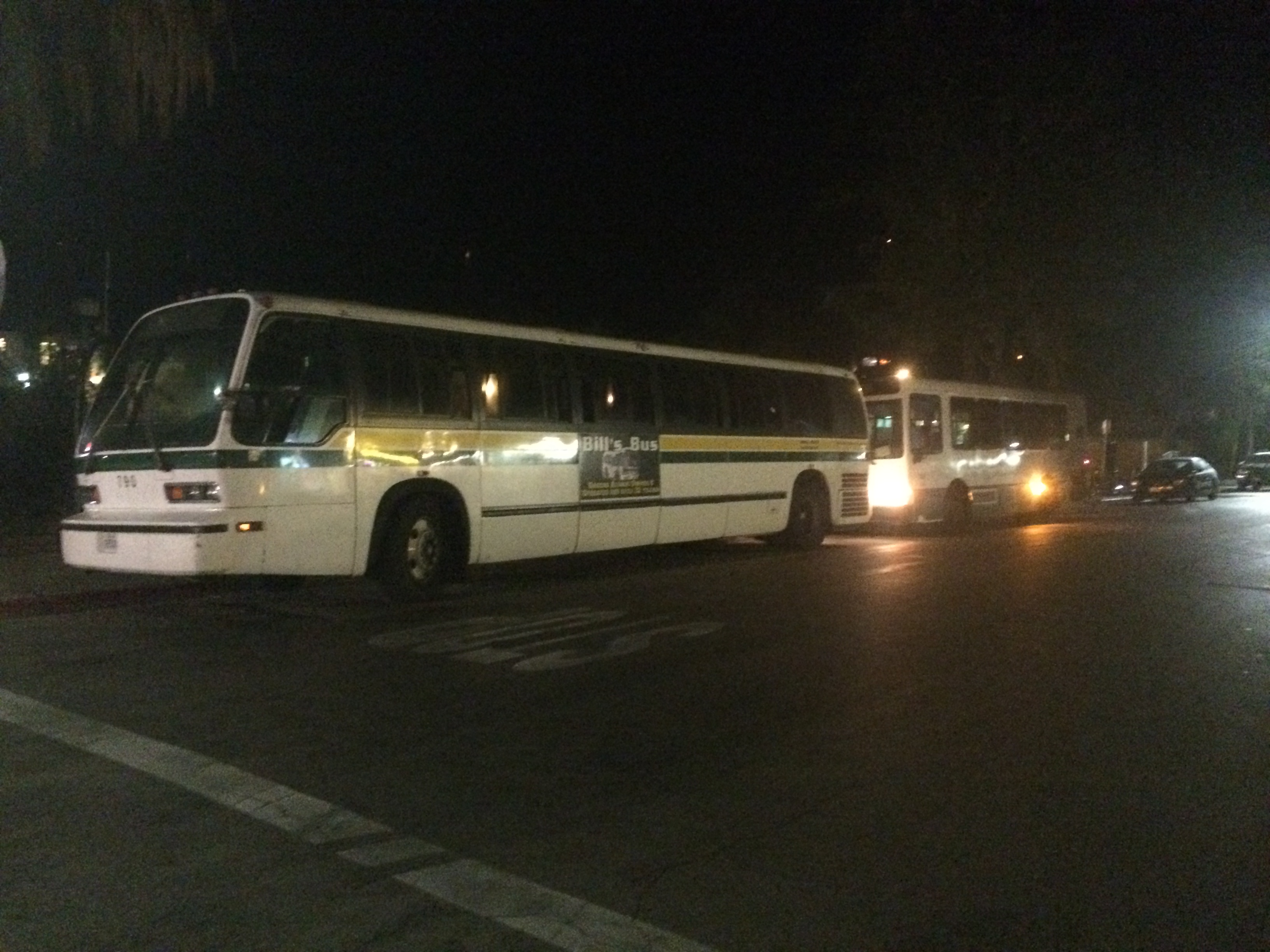 Bill's Bus, a private transportation service between Isla Vista and Santa Barbara, California.